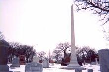 Hormel Obelisk